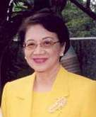 Former president of the Philippines, Corazon Aquino, at the 2003 Ninoy Aquino Award ceremony